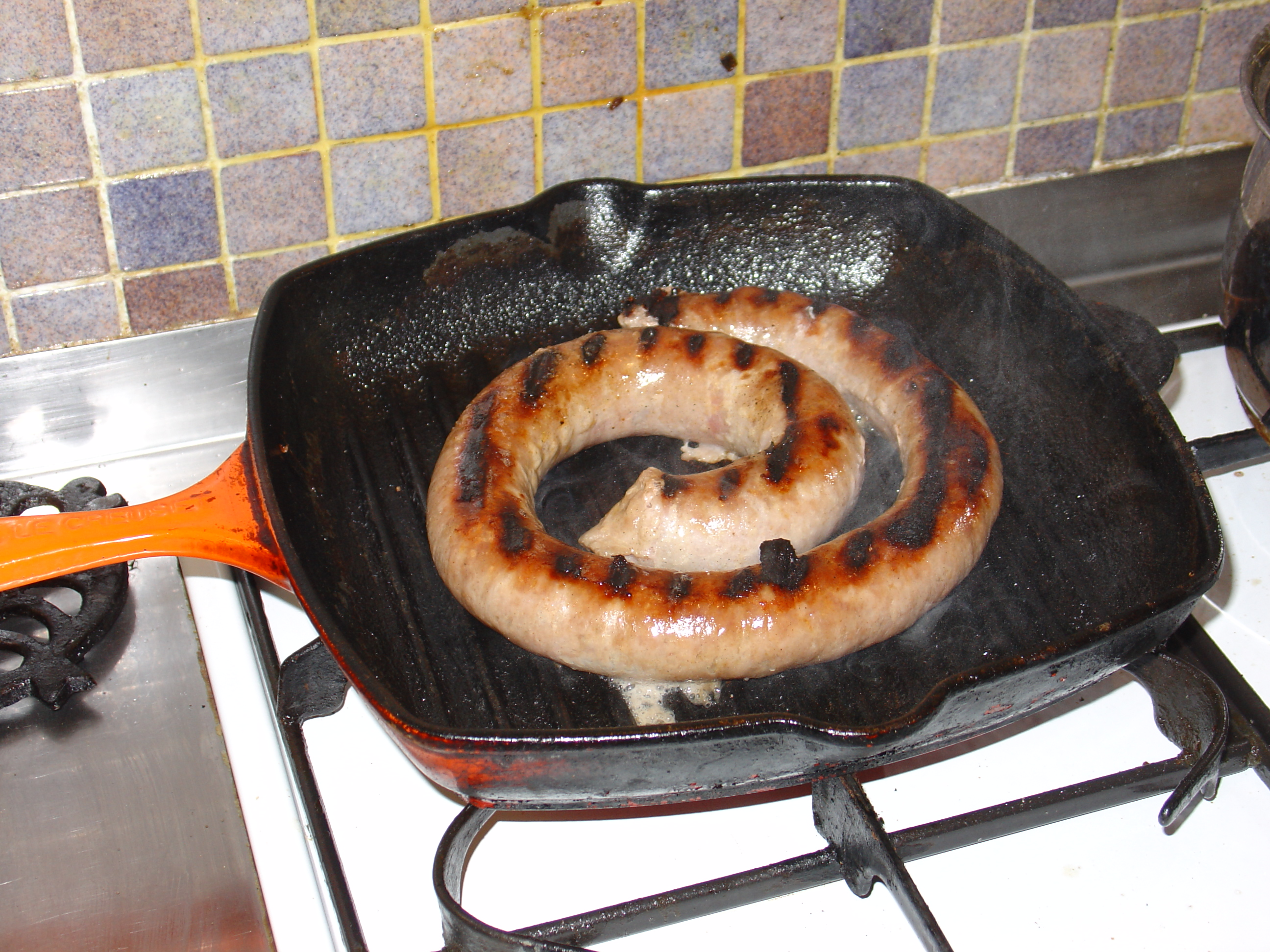 For Multum in Parvo. _Real_ Cumberland sausage, all the way from Haigh's in Workington. Yum...